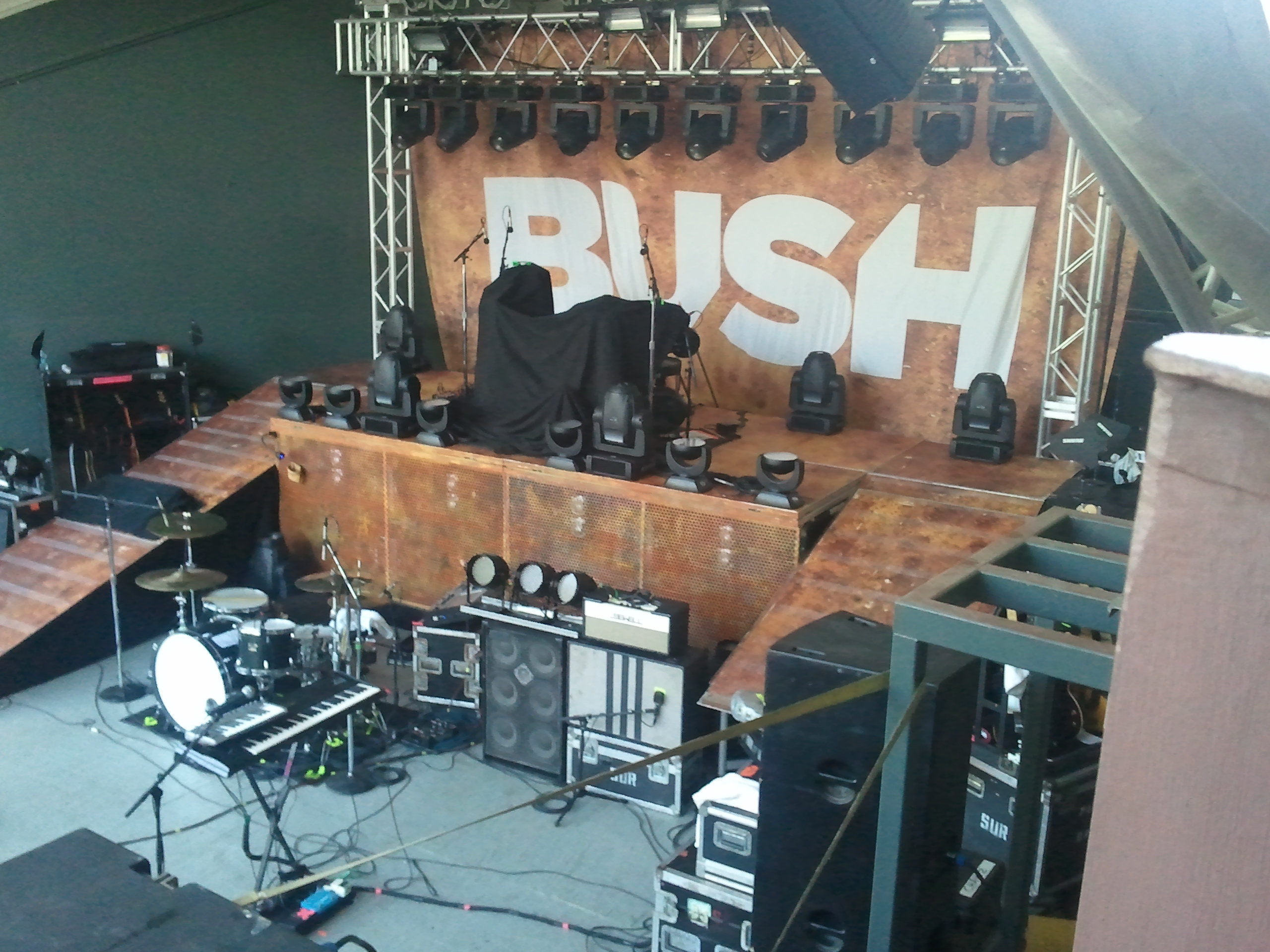 Bush concert at Stubb's in Austin, TX on 8-17-2011.